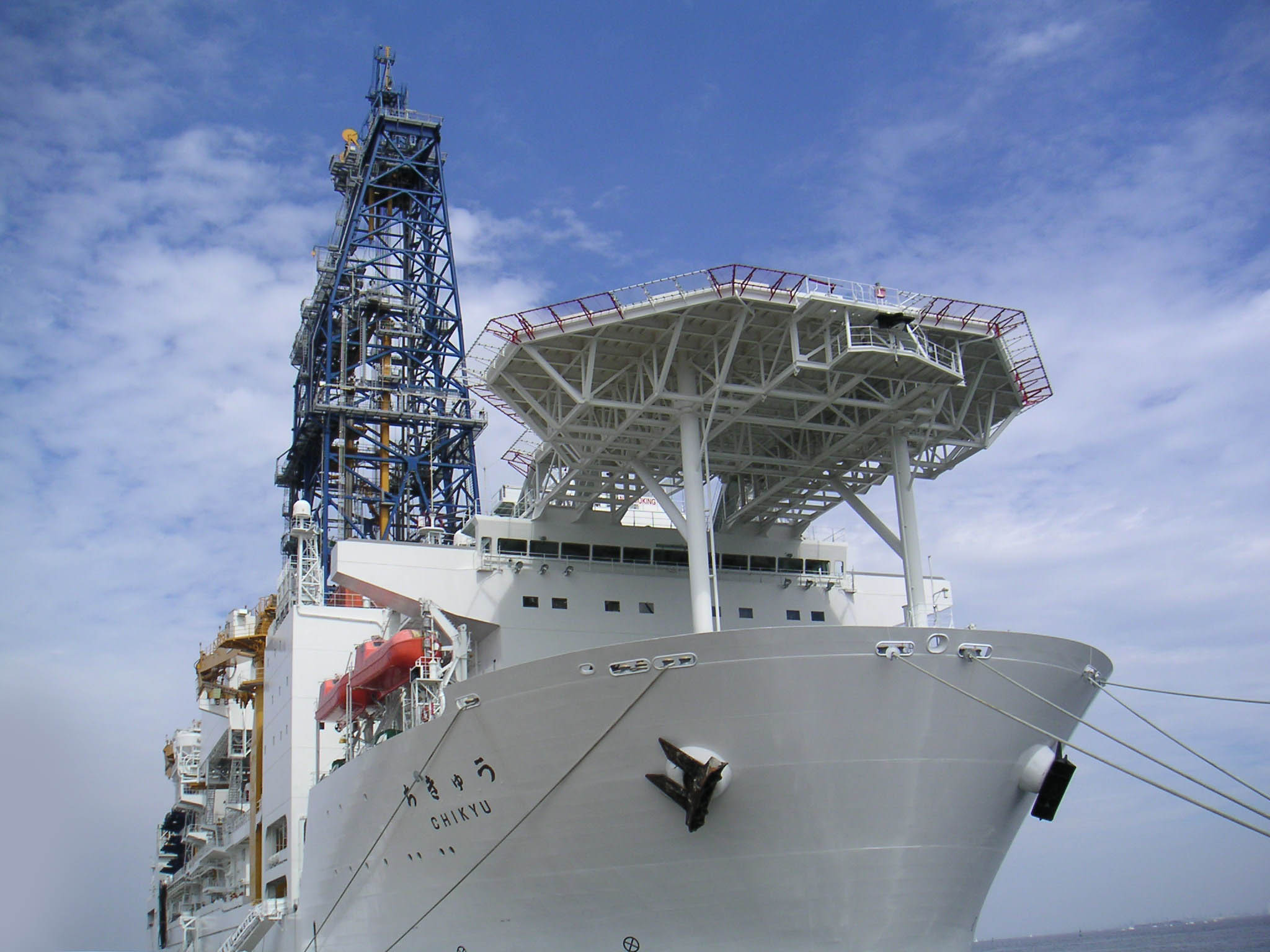 JAMSTEC (Independent Administrative Institution, Japan Agency for Marine-Earth Science and Technology)'s Deep-sea Drilling Vessel "CHIKYU". Photo taken at Yokosuka New Port, Kanagawa, Japan.